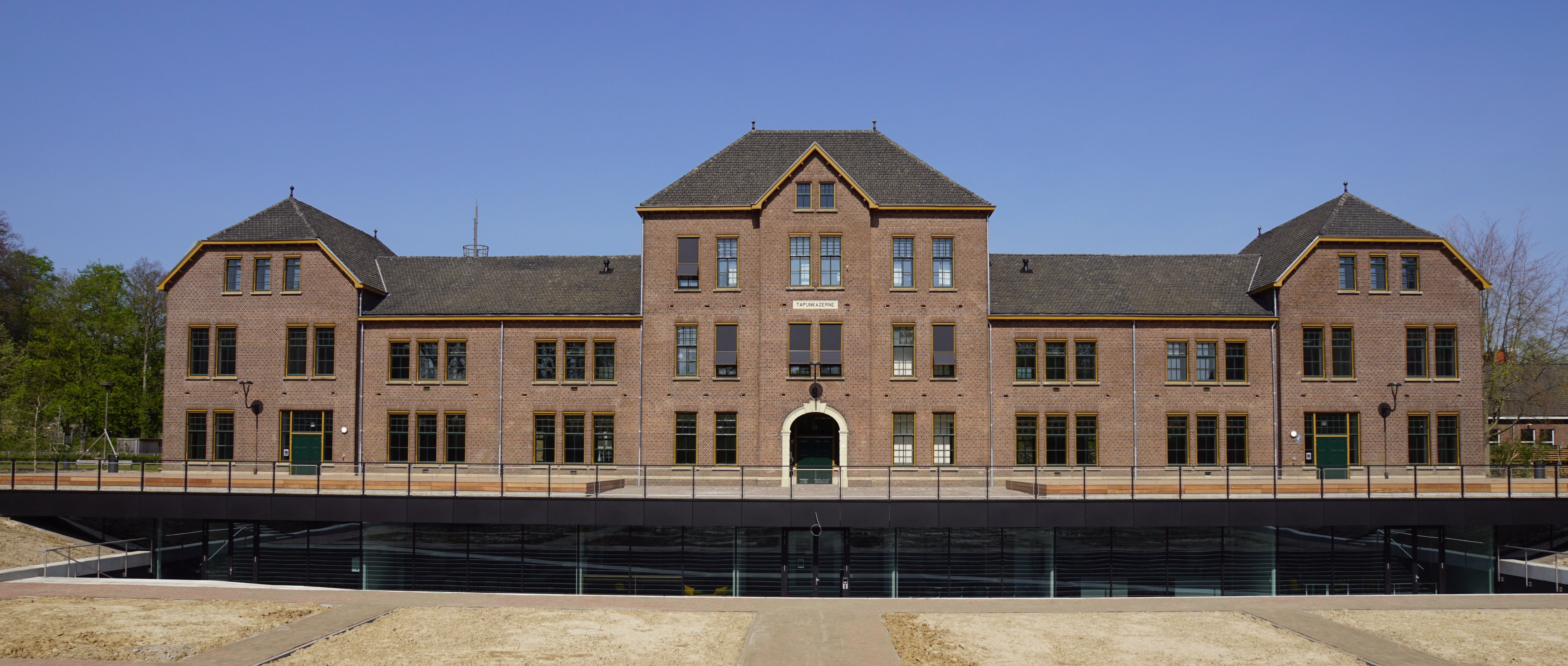 Tapijnkazerne 6-11-14, Maastricht, The Netherlands.